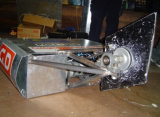 Adam I